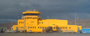 Taken by me in November 2005